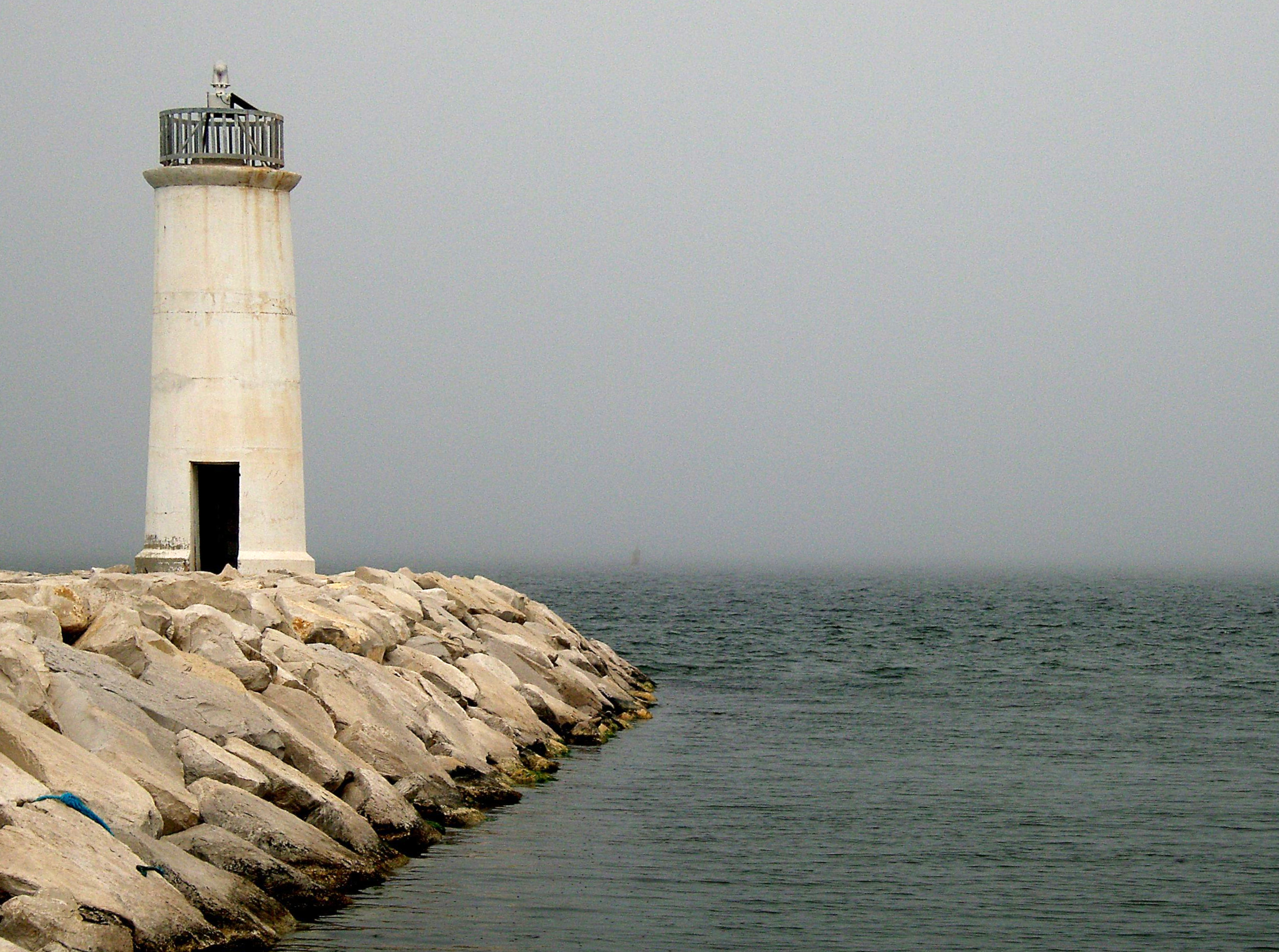 The white lighthouse in Sayada.